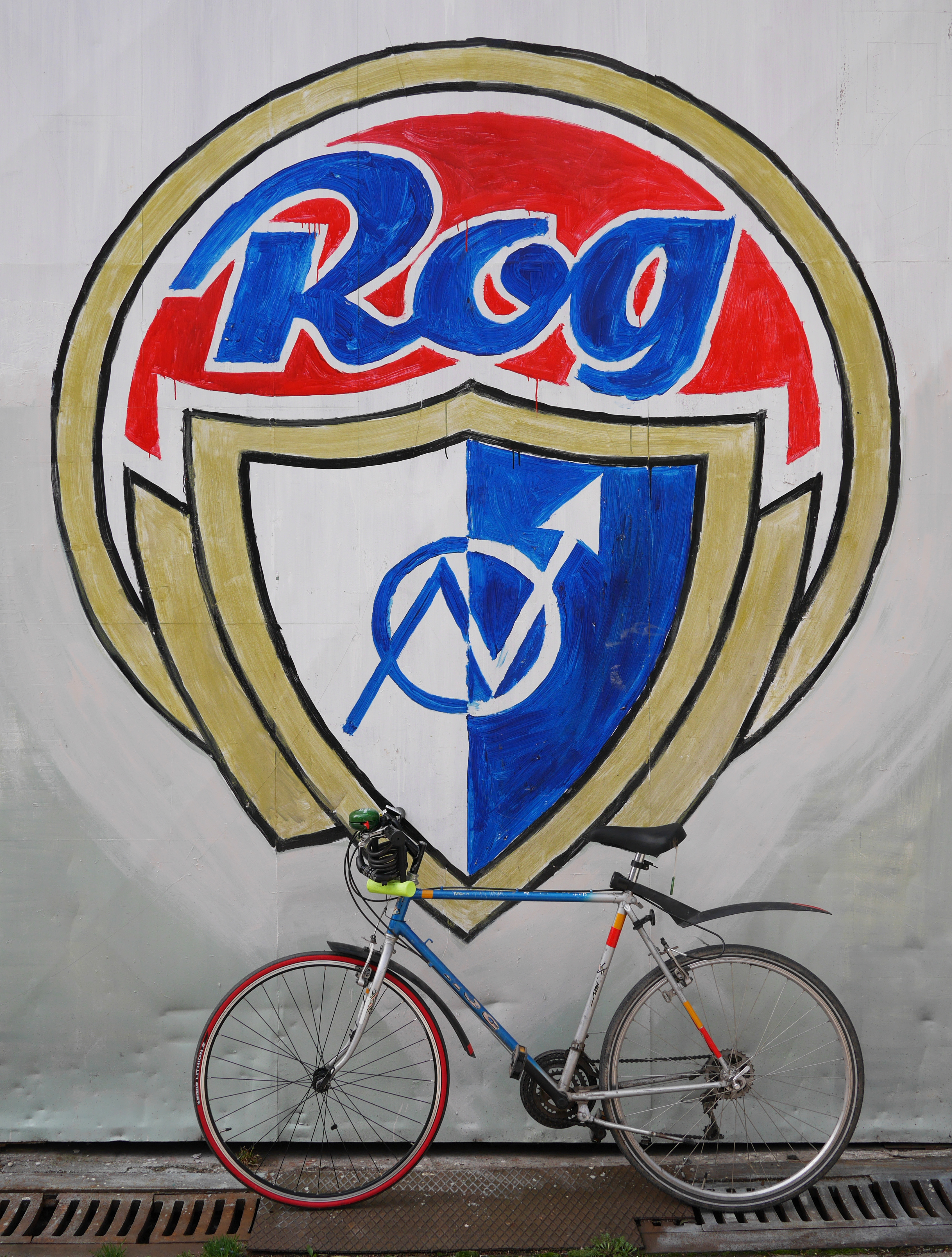 Bicycle "Rog trekk" (made 1989-1990, originaly 3×6 Shimano SIS (rear derailleur SHIMANO RD-TY20 as on photo), thumb shifters) standing by abandoned Rog factory at Trubarjeva street, Ljubljana, Slovenia. On main doors to the hall is drawn graffiti with Rog logo.